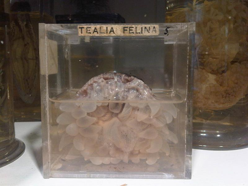 Northern red anemone or dahlia anemone (Urticina felina, syn. Tealia felina) in Grant Museum of Zoology, London, England.